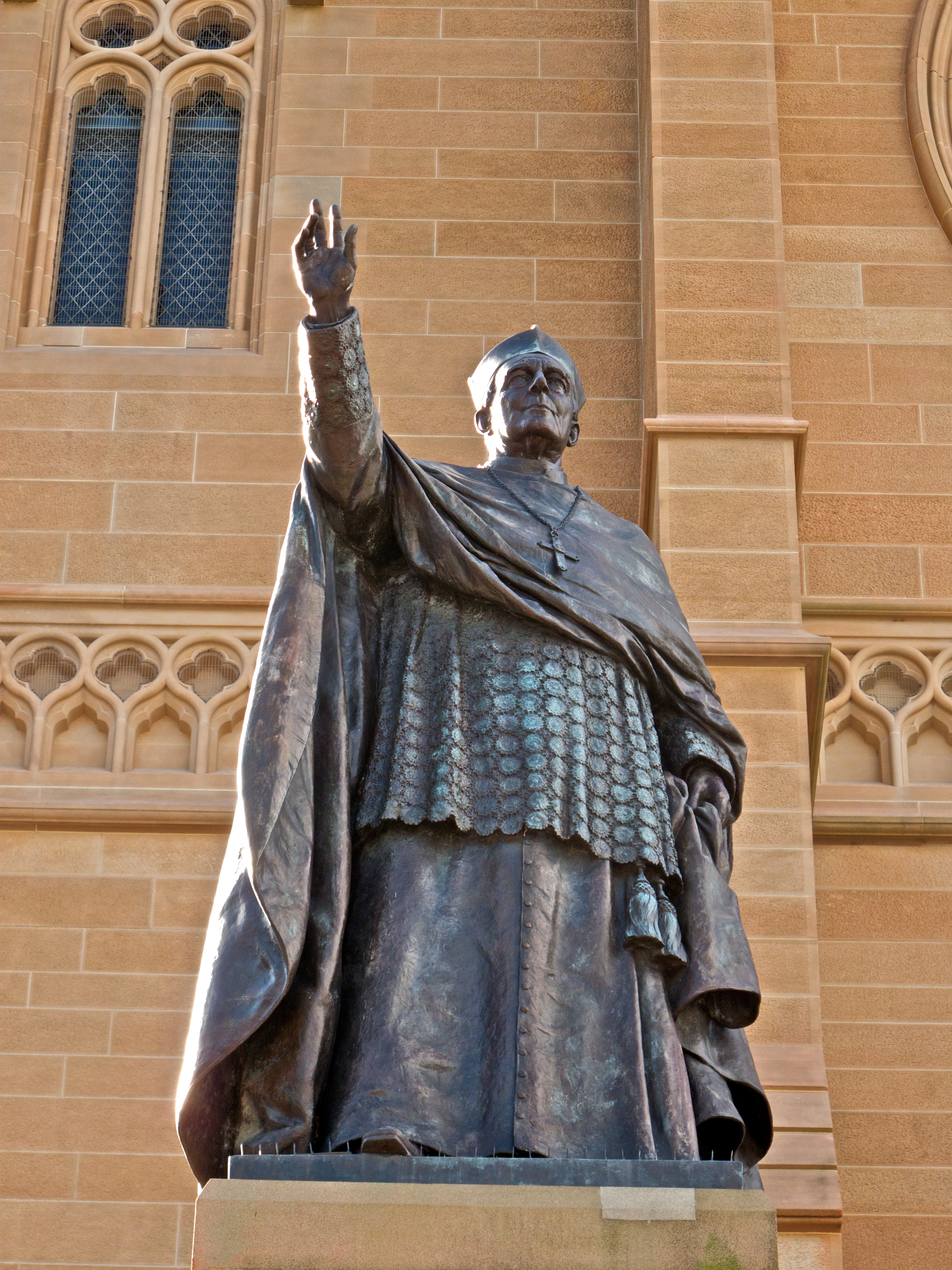 Statue of Archbishop Patrick Francis Moran at St Mary's Cathedral, Sydney.